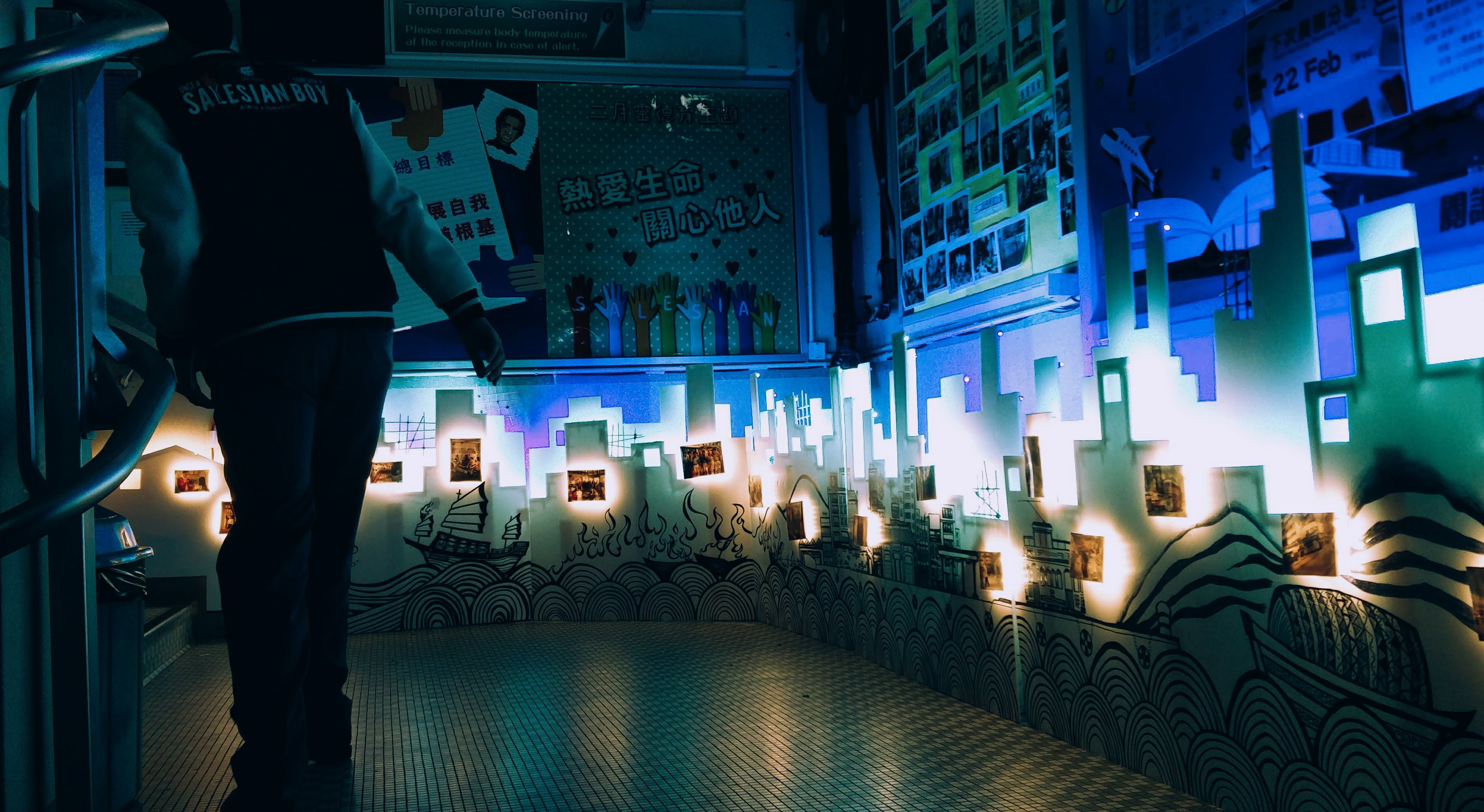 Displaying with lights on.